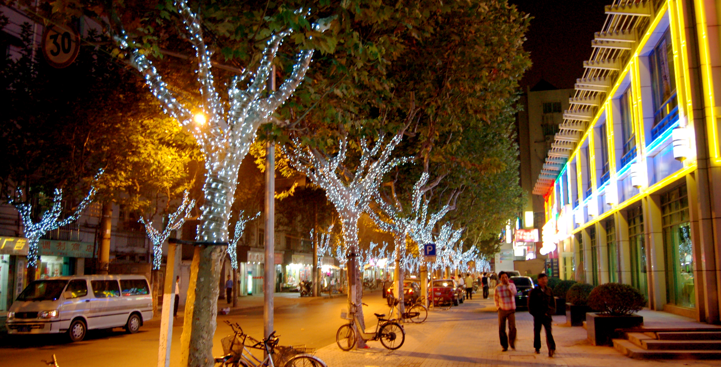 The street is located in the Zhabei district of Shanghai, near the "Circus World" ; Subway station of line 1 on National Days.